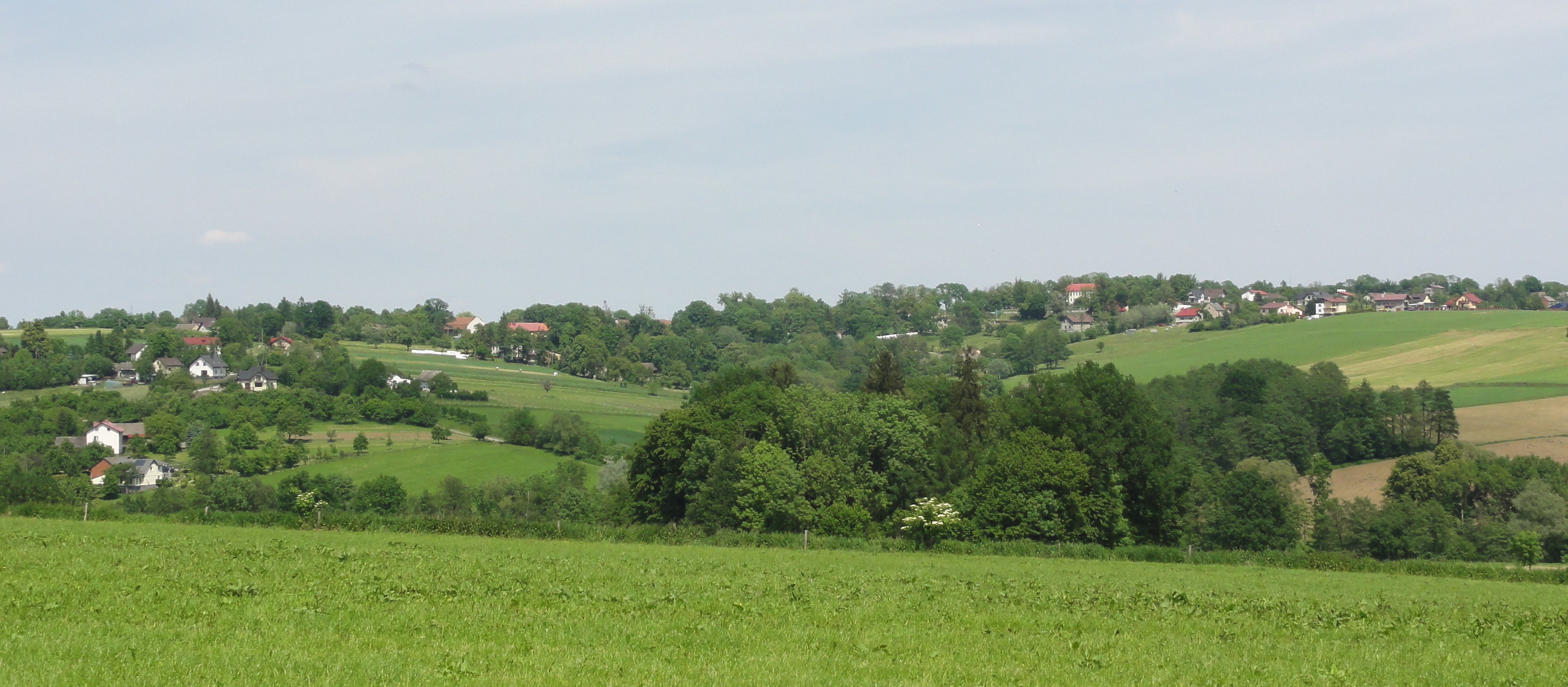 Iskrzyczyn Centrum i Mirów z Kostkowic